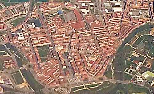 Arrotxapea, Iruñea-Pamplona. Navarre, Basque Country.